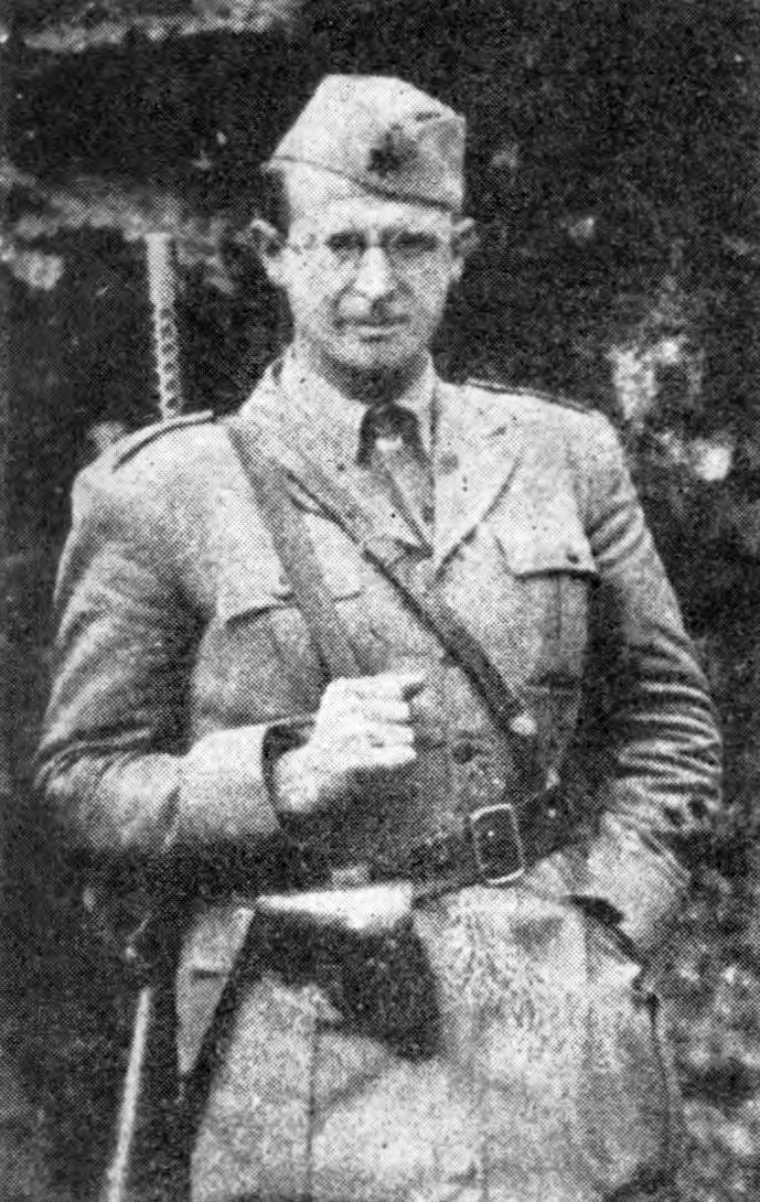 Evgen Matejka-Pemc (1909-1945)